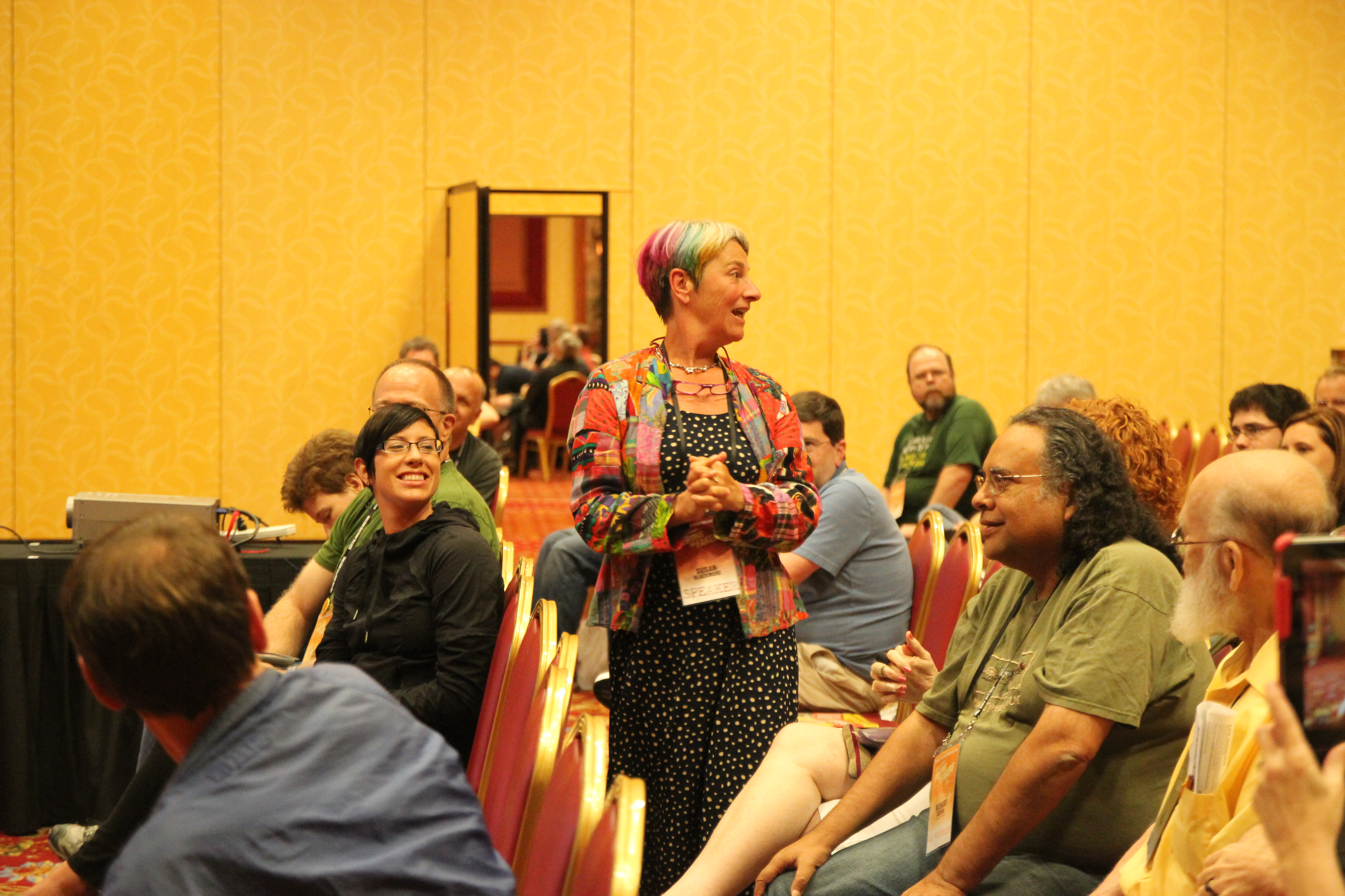 Blackmore asks a question during a TAM 2013 Workshop